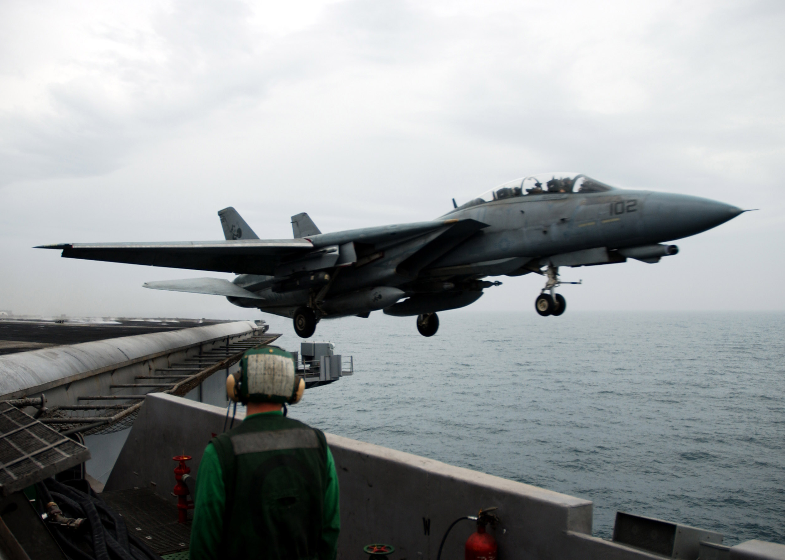 Persian Gulf (Feb. 6, 2006) - An F-14D Tomcat assigned to the "Tomcatters" of Fighter Squadron 31 (VF-31) launch from the flight deck aboard the Nimitz-class aircraft carrier USS Theodore Roosevelt (CVN 71). Roosevelt and embarked Carrier Air Wing Eight (CVW-8) are currently underway on a regularly scheduled deployment conducting maritime security operations. U.S. Navy photo by Photographer's Mate 3rd Class Randall Damm (RELEASED)